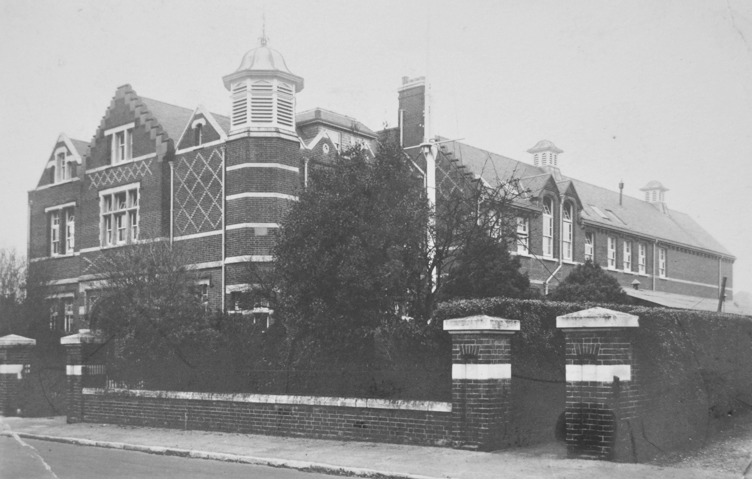 Bournemouth School's original buildings. The School relocated in 1939.